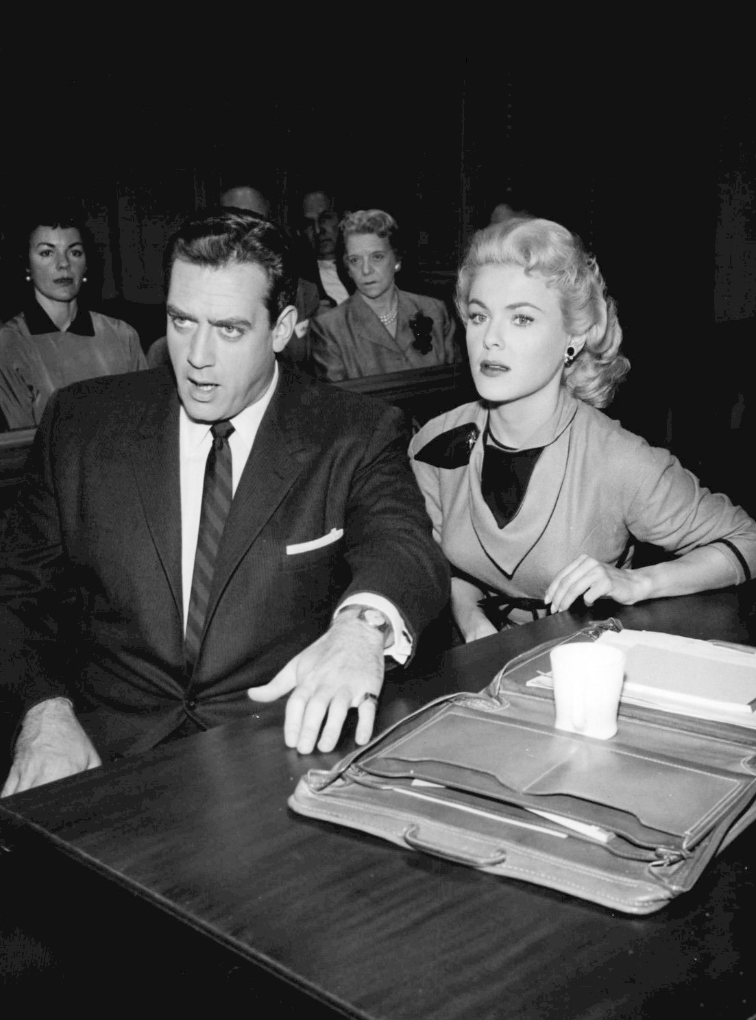 Photo of Raymond Burr as Perry Mason and guest star Kathleen Crowley in the Perry Mason episode "The Case of the Lonely Heiress".